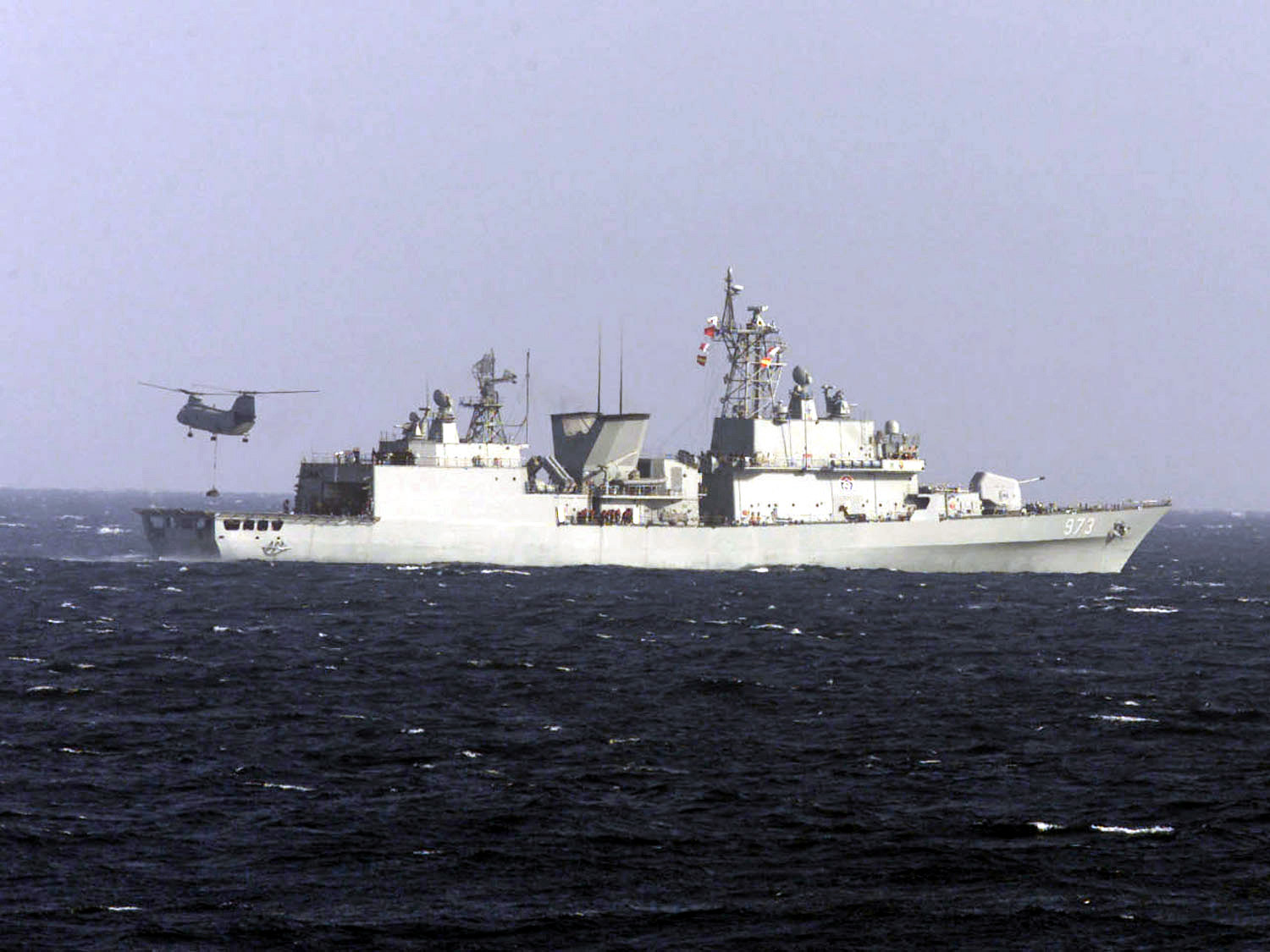 ID: DNSD0316841 Service Depicted: Multi-National Command Shown: USS ESSEX (LHD 2) 020325N5972C007 Operation / Series: FOAL EAGLE 2002A starboard side view of the Republic of Korea (ROK) KWANGGAETO THE GREAT (KDX-1) CLASS: Destroyer YANGMANCHUN (DDH 973) underway as a US Navy (USN) HH-46D Sea Knight helicopter from Combat Support Squadron FIVE (HC-5) conducts vertical replenishment (VERTREP), during Exercise FOAL EAGLE 2002. The Exercise is an annual joint and combined field training and maritime exercise between US Military and ROK armed forces, and is designed to strengthen relationships and improve interoperability between the forces of the two nations through real world training scenarios.